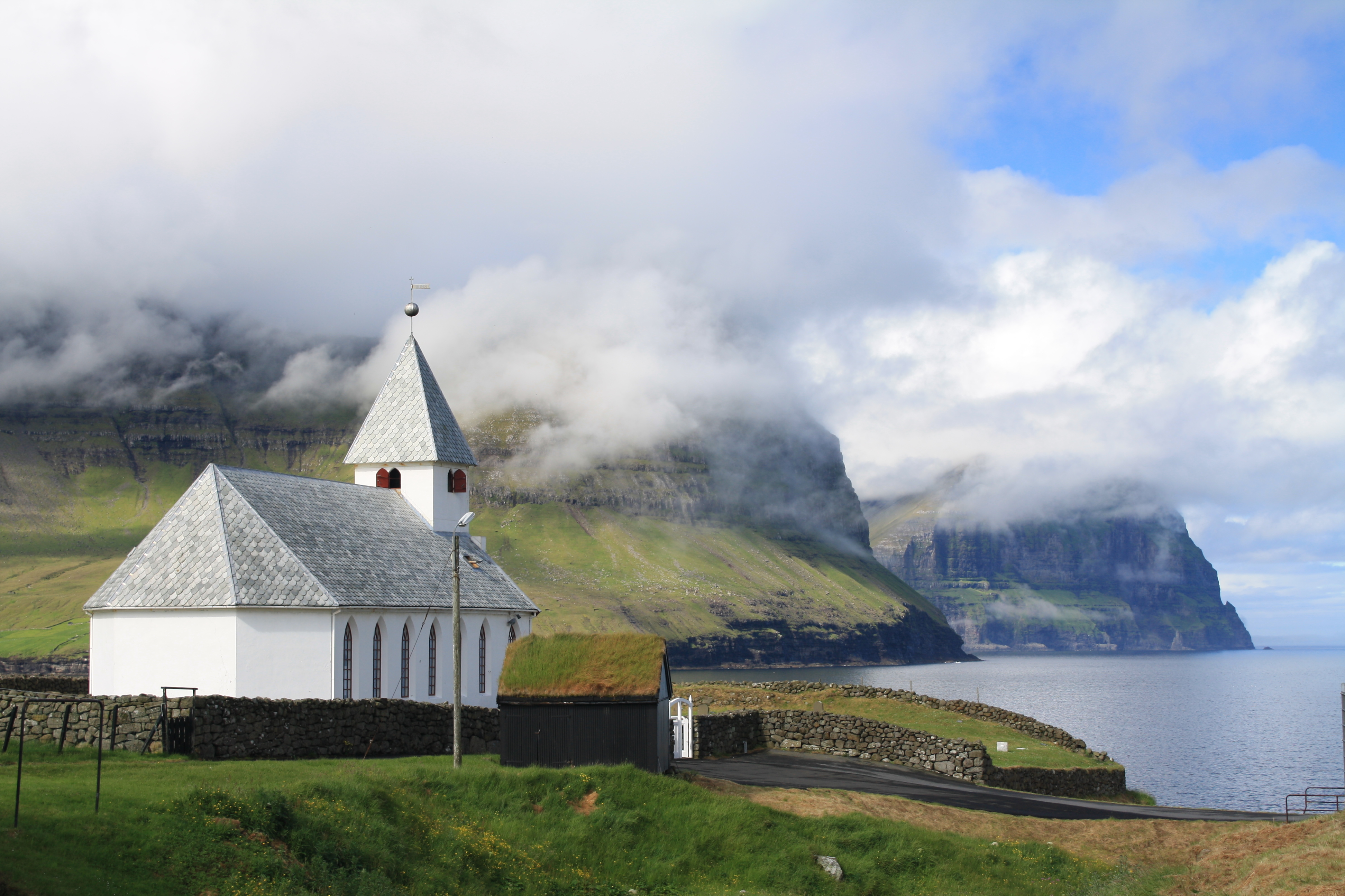 Church of Viðareiði on Viðoy, Faroe Islands.